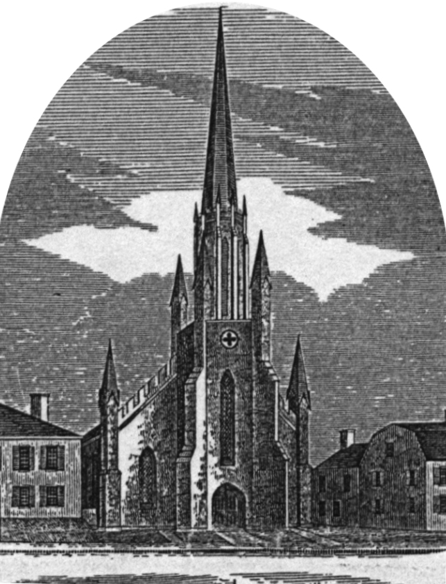 St. John's Episcopal Church, Hartford, Connecticut. It is the scan of an engraving from a city directory published in 1896 and shows the church as first built. The Google Books "full text" source is provided below.